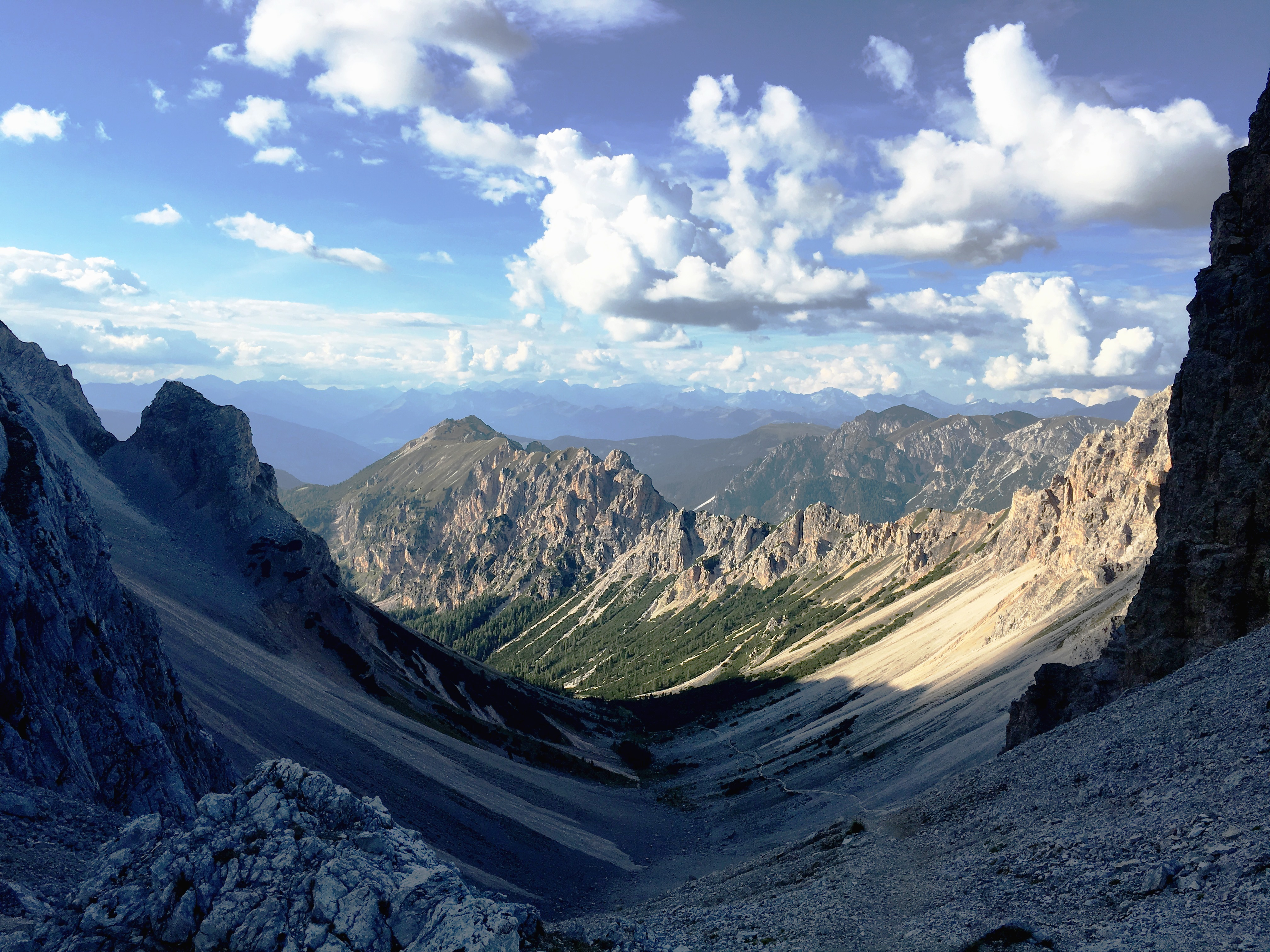 Wiew from east to west of the highest portion of the valley of Spessa in the municipality of La Valle in the province of Bolzano in Italy.